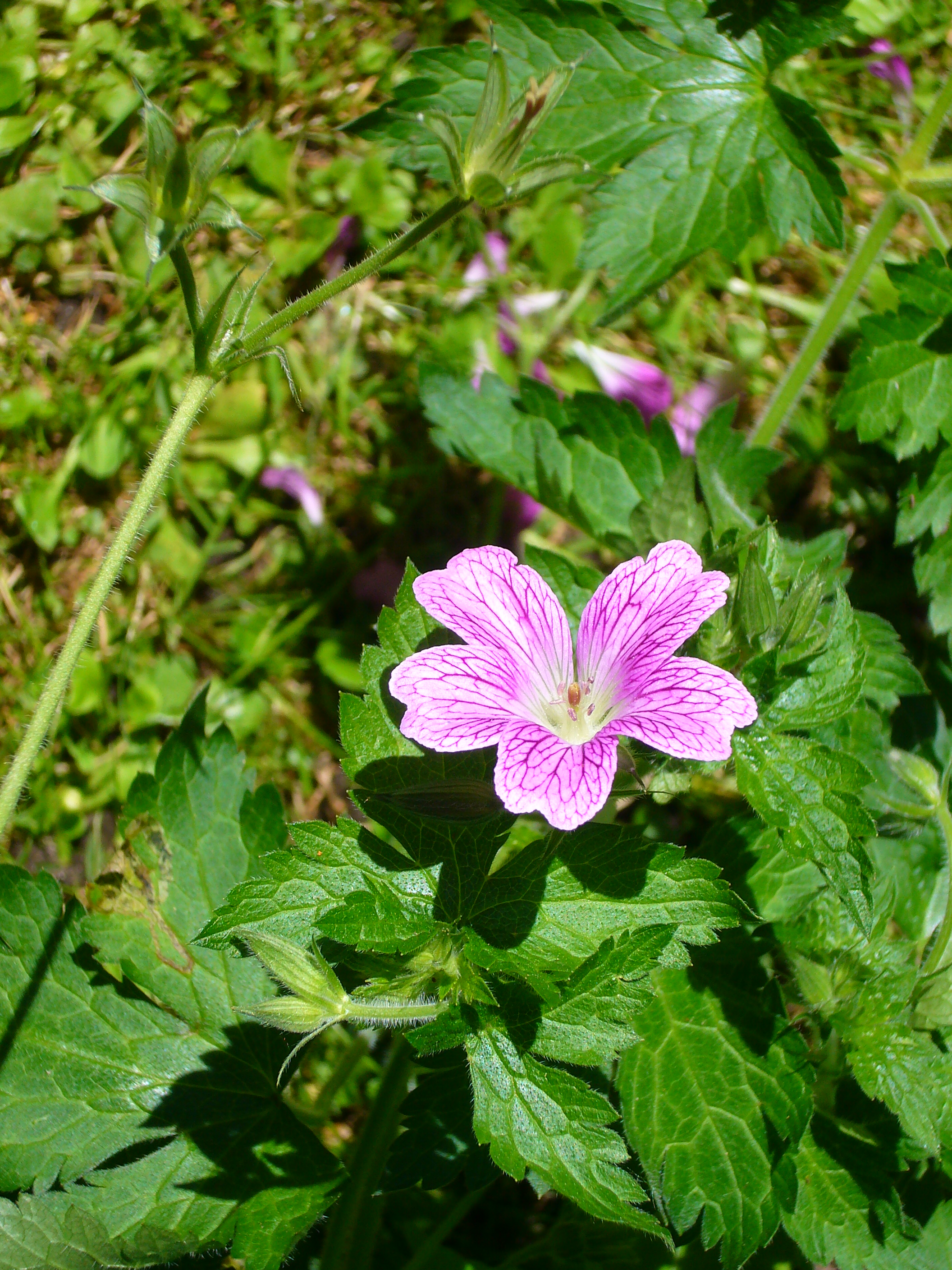 Geranium x oxonianum (flower) (photo taken in the Cambridge University Botanic Garden)